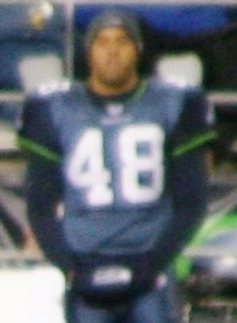 Green Bay Packers players huddle before a Monday Night Football game in Qwest Field of Seattle in 2006.